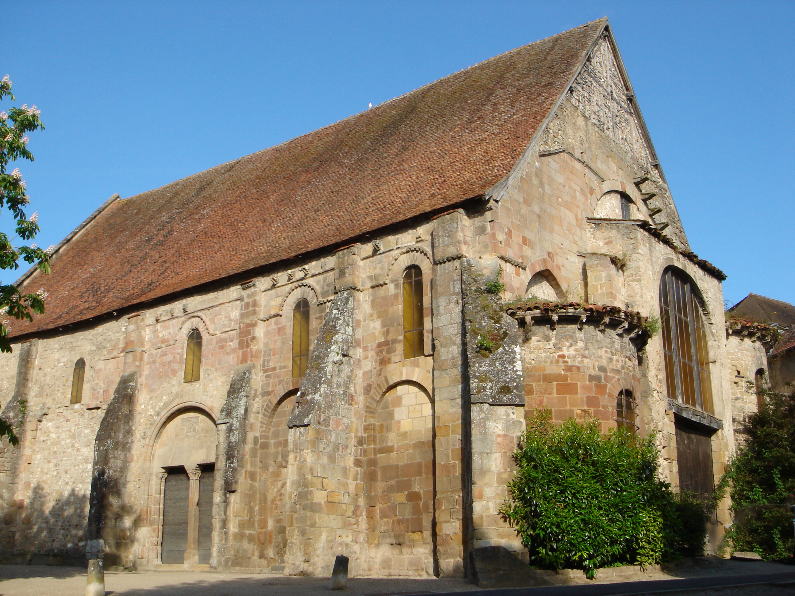 St Marc Church